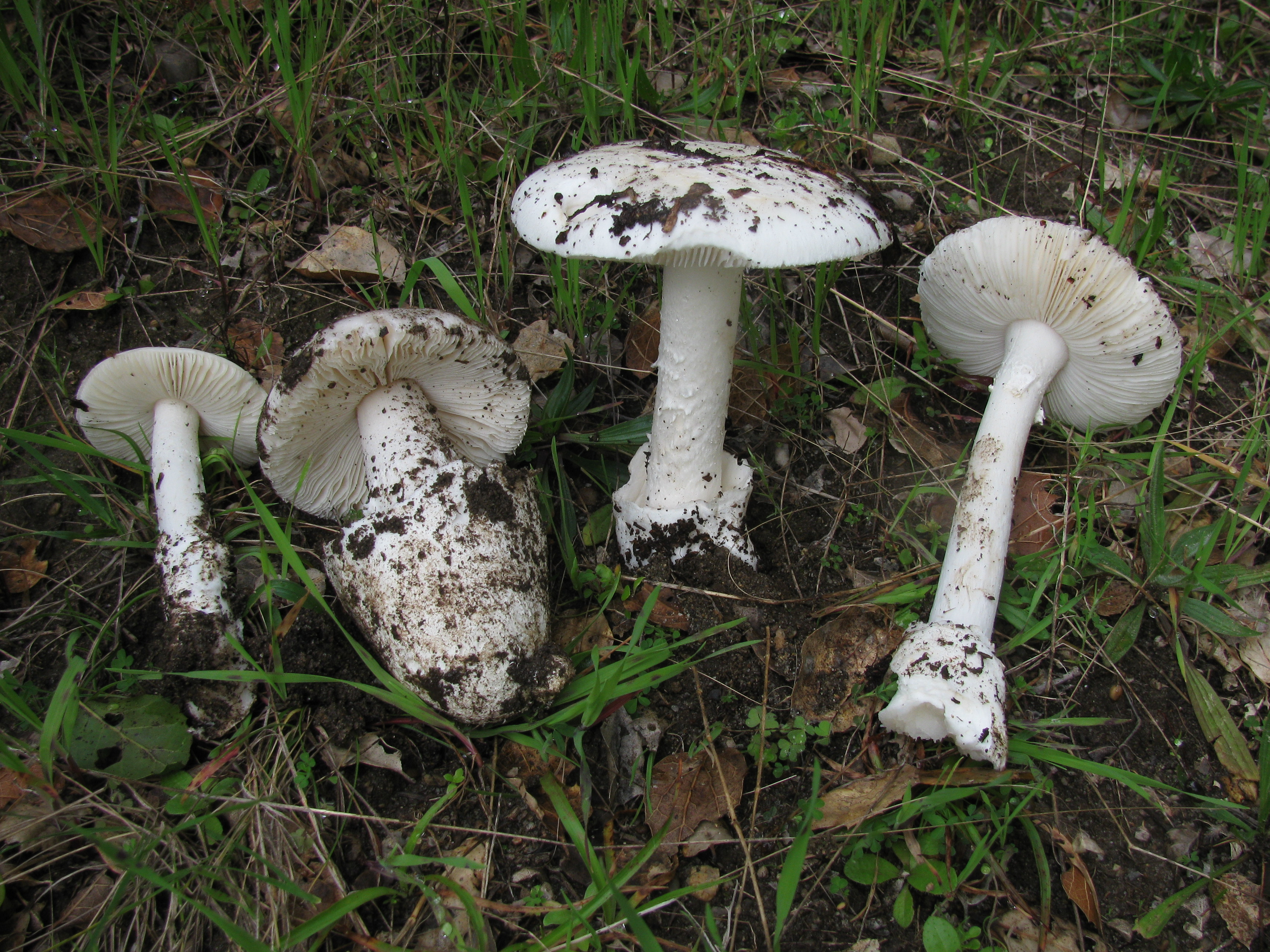 The "destroying angel" mushroom, species Amanita ocreata Peck. Specimens photographed in Capitola, Santa Cruz Co., California, USA. "Notes: Recognized by sight: found under coastal live oak"